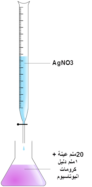 Analysis of chlorides in drinking water